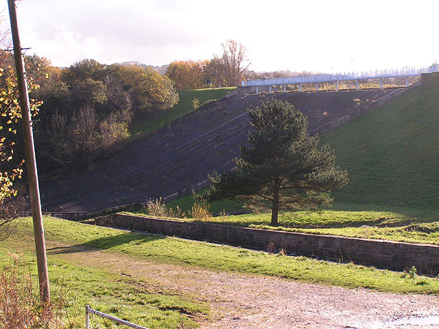 Toddbrook Reservoir: the dam. From Reservoir Road looking SSW. Toddbrook Reservoir was built in 1831 to store water for the nearby Peak Forest Canal.